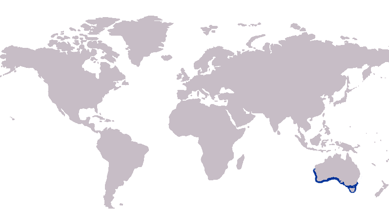 Distribution of the southern black bream, Acanthopagrus butcheri using map based on GDFL image